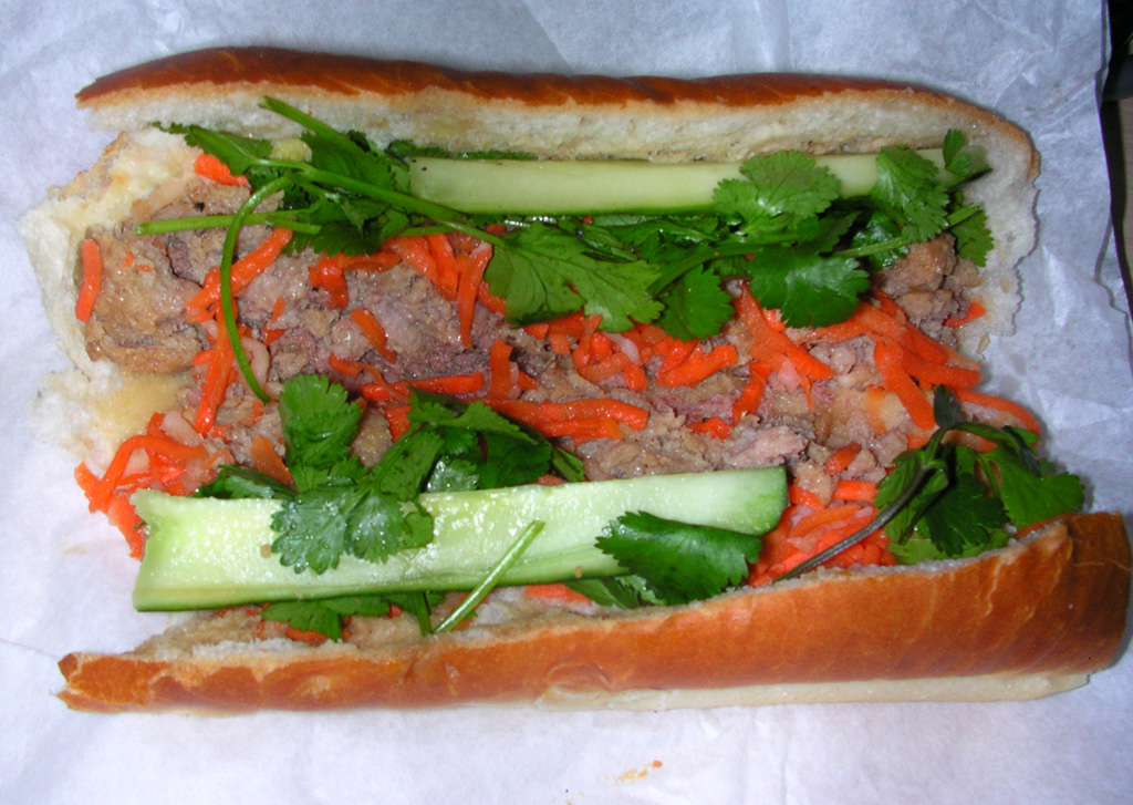 This is a picture of a bánh mì xíu mại sandwich (vietnamese), with no peppers, which the user got from Hong Kong Market in Houston, TX